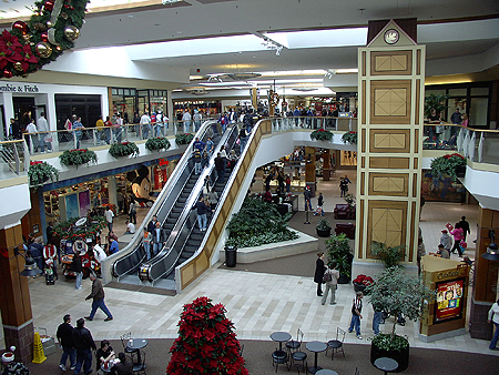 A photo of Oak Park Mall (located in Overland Park, Kansas) during the Holiday Season